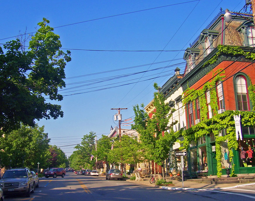 Photographed by Daniel Case 2007-05-24